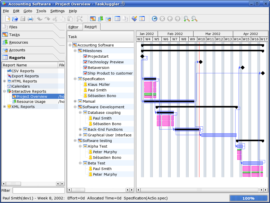 Screenshot of the TaskJuggler main window.